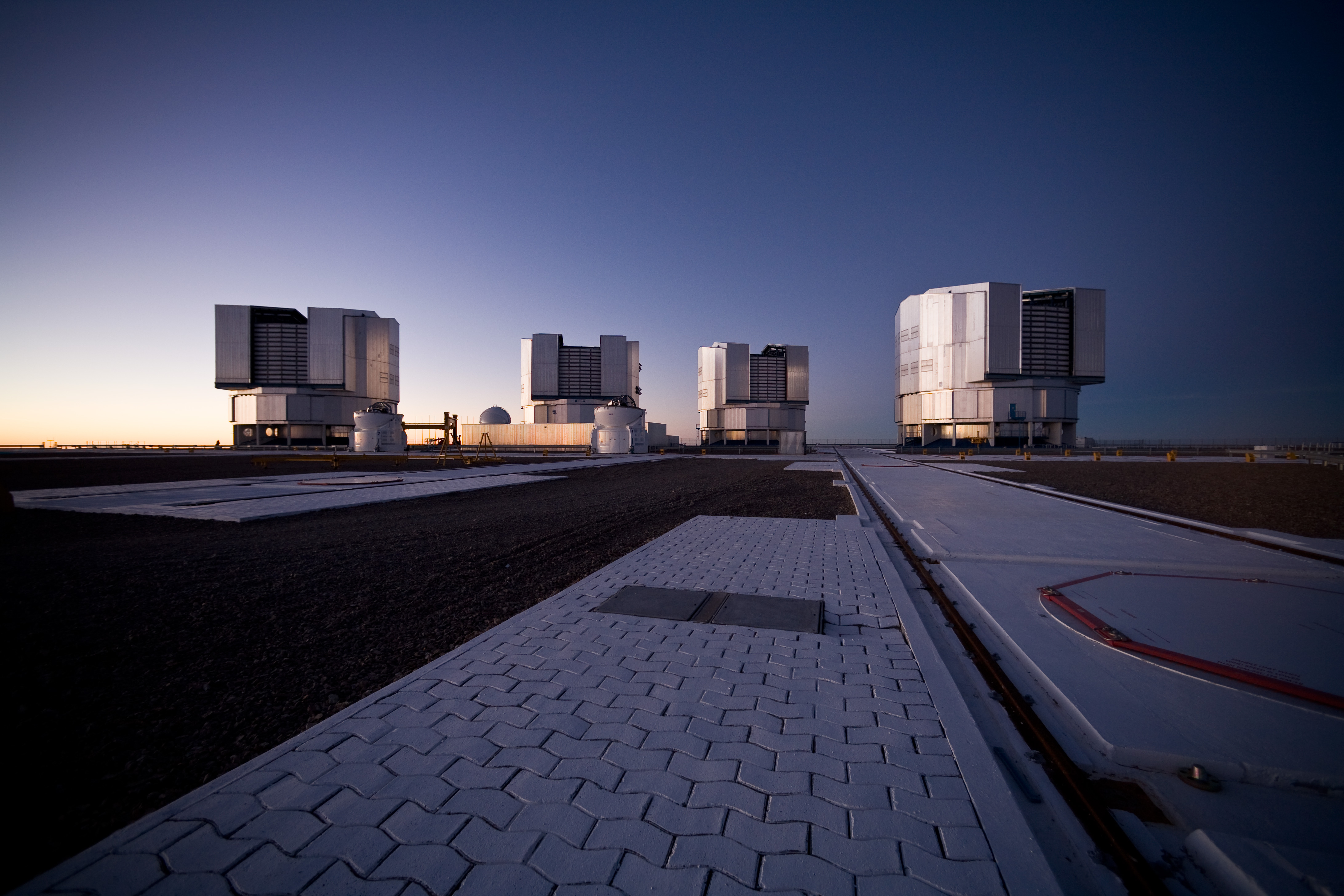 This image of the Paranal platform was taken right after sunset. The four Unit Telescopes are ready to start the observations.